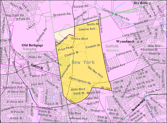 U.S. Census 2000 reference map for East Farmingdale, New York